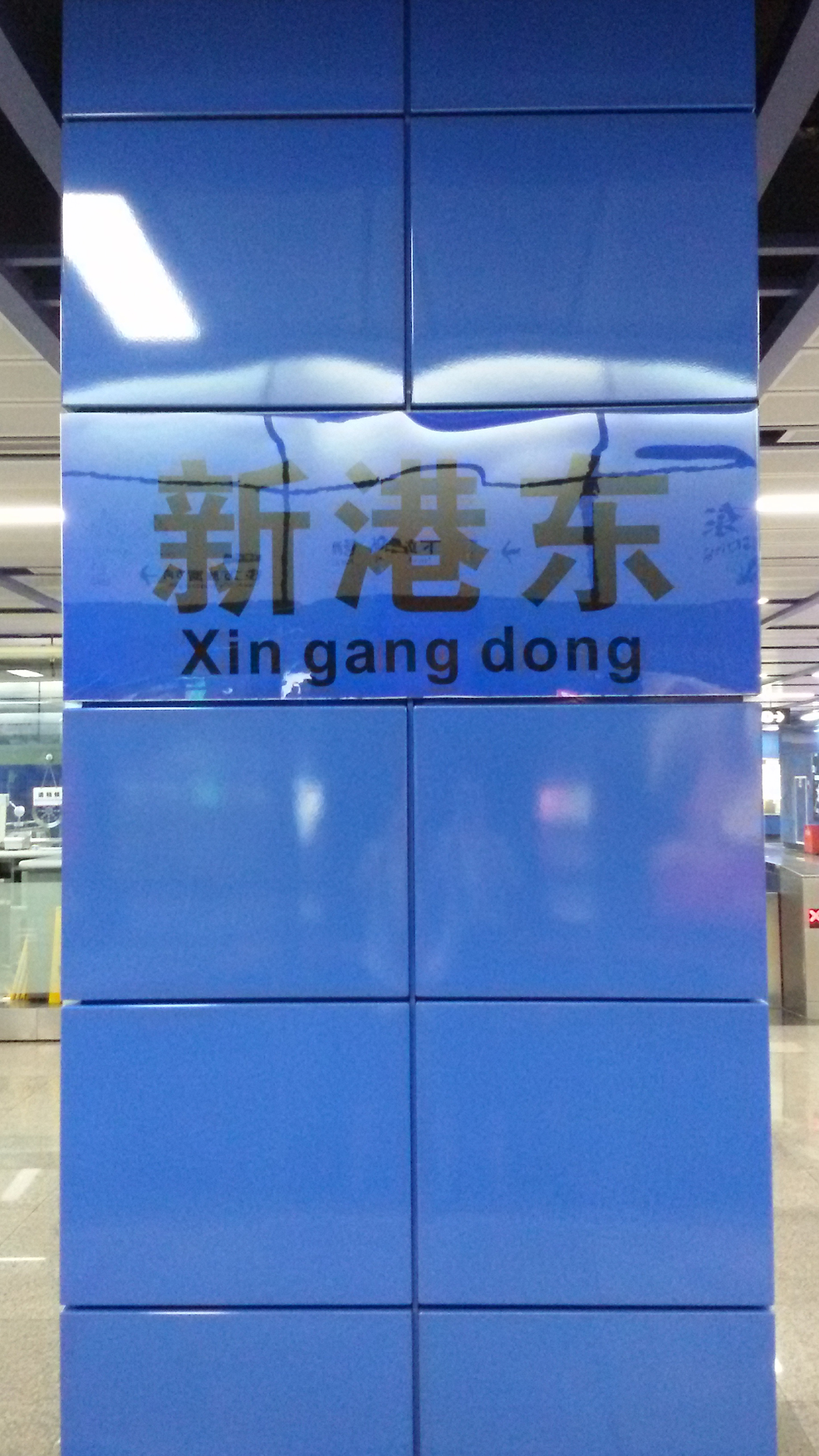 WORD on PILLAR for Xingangdong Station in Guangzhou Metro 粵語: 廣州地鐵，新港東站嘅柱上啲字。